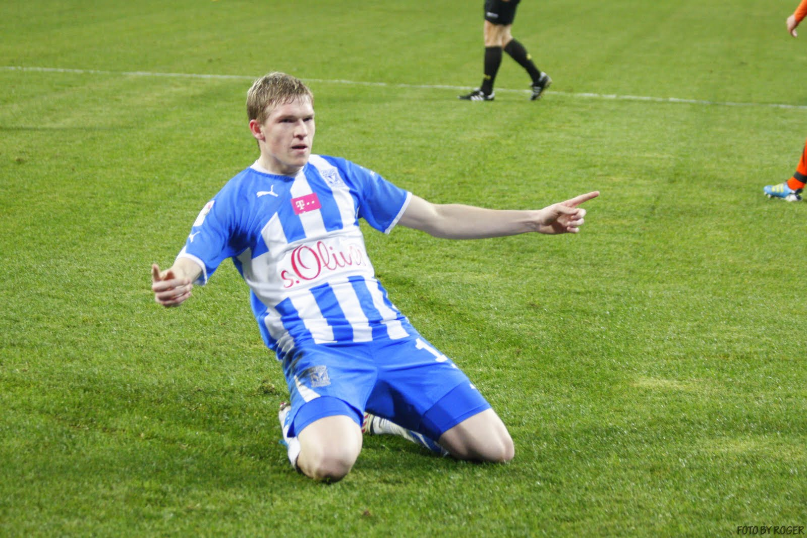 Artjoms Rudnevs, Lech Poznan player.